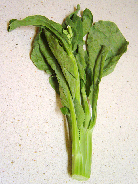 A gailan from supermarket. Mustard orchid, Chinese broccoli or Chinese kale. Though this is not garden fresh, it is only two days old from the supermarket. It looks a little withered. This is about 10" long